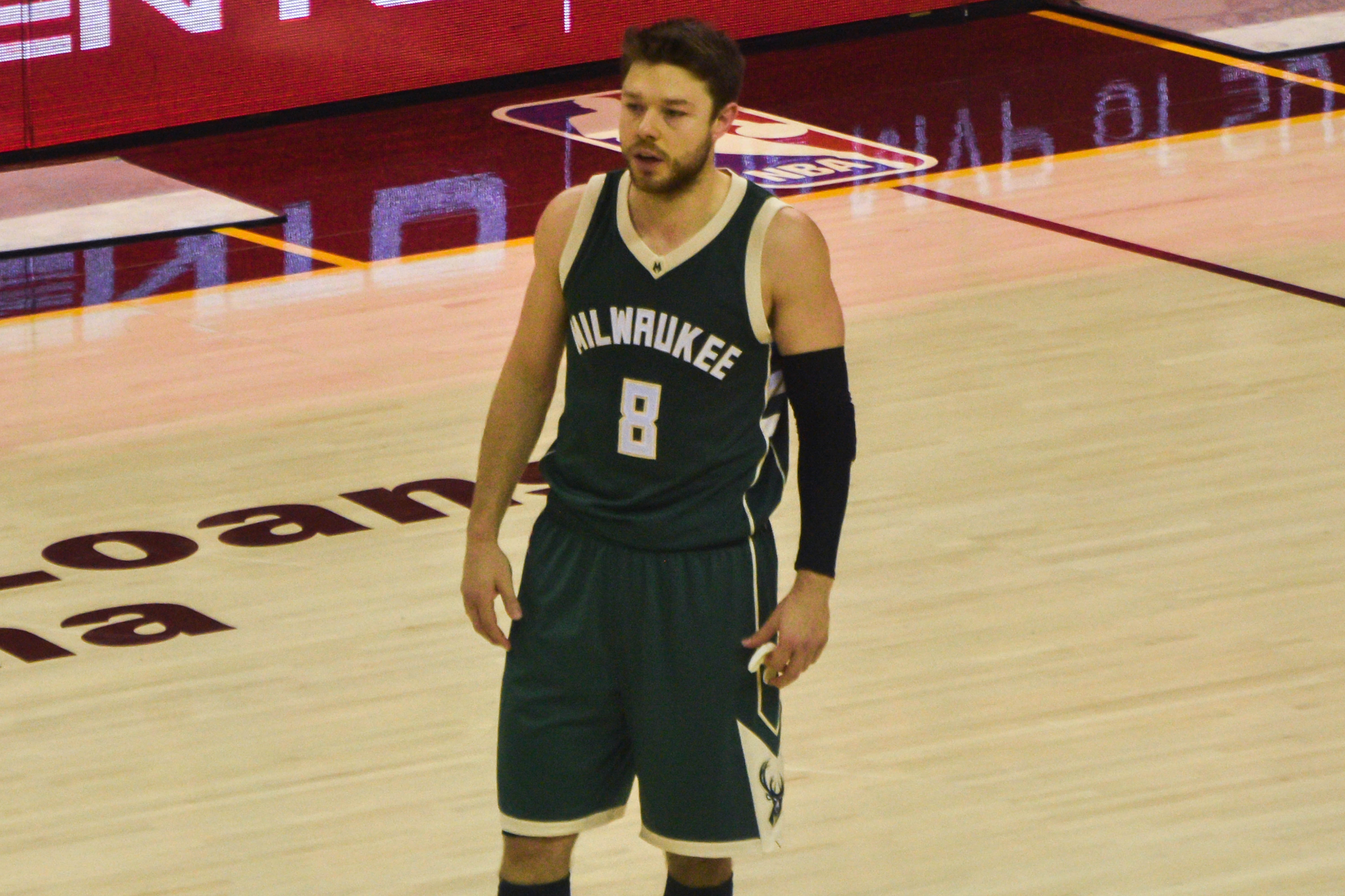 Matthew Dellavedova